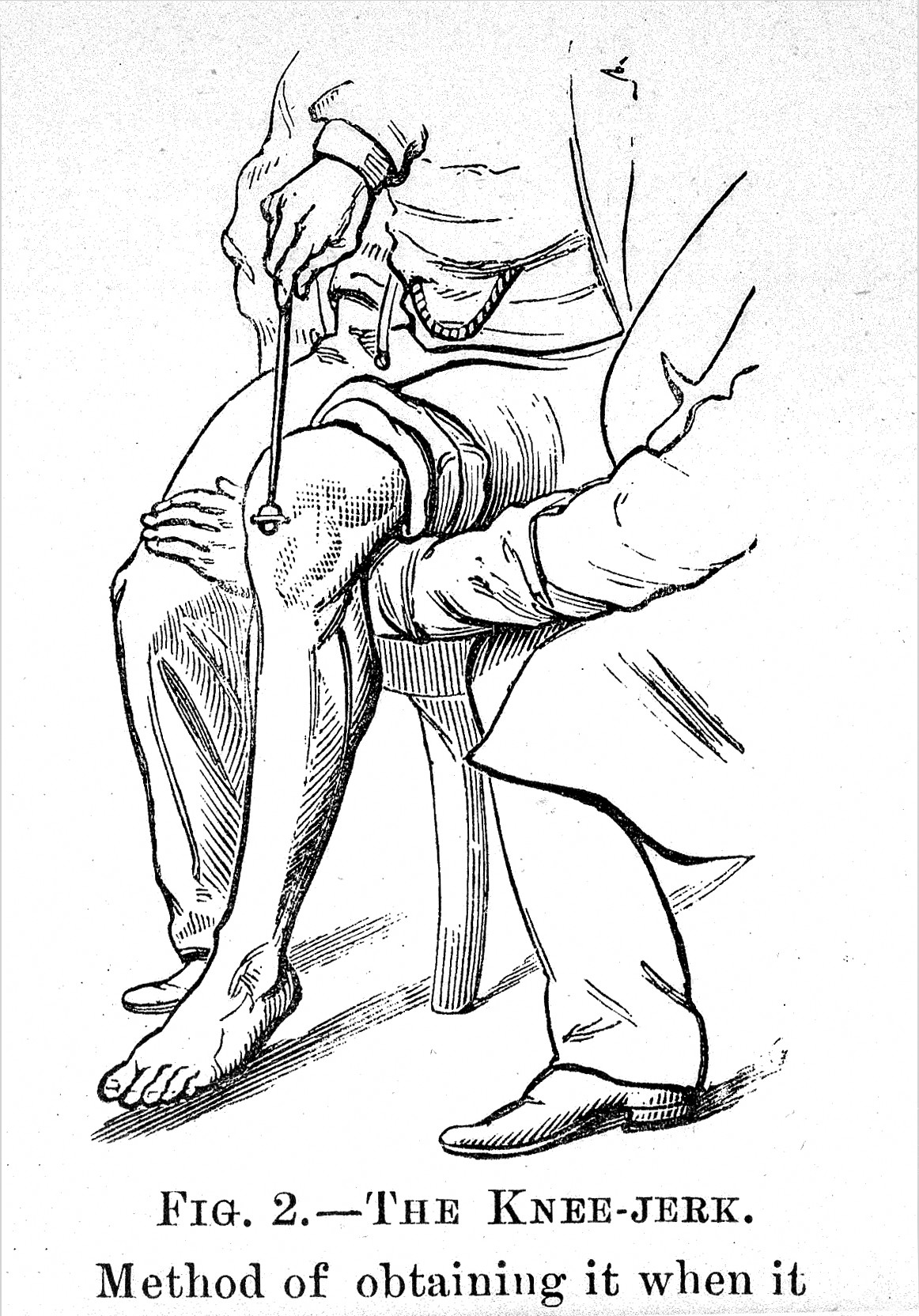 The knee jerk General Collections